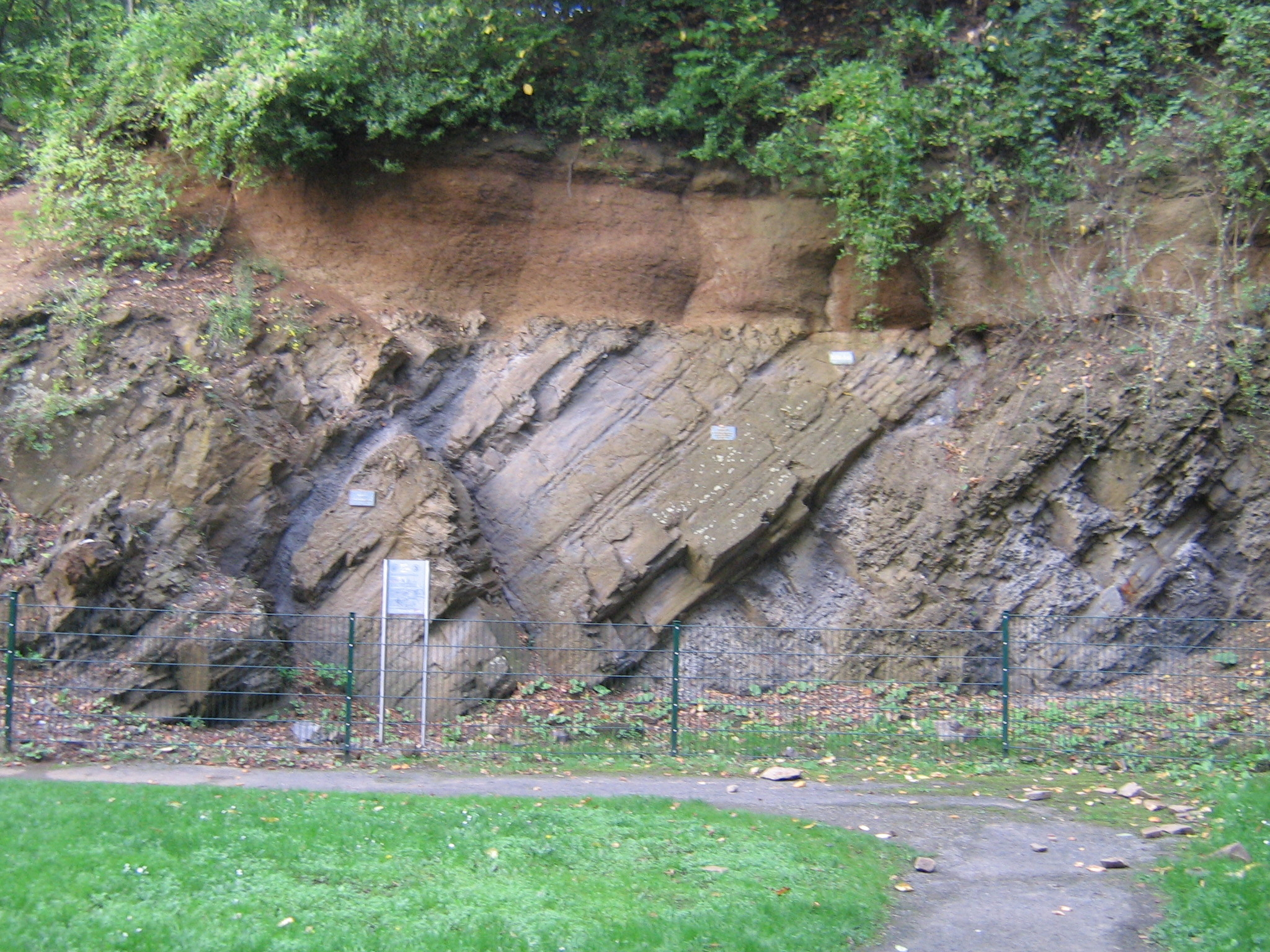 Upper Cretaceous angular unconformity at Bochum Geologischer Garten: Basal beds of the Essen Greensand Formation (Cenomanian, Upper Cretaceous) transgressivley overlying tilted sand- and mudstones in between coal seams ‘Wasserfall’ and ‘Dünnebank’ of the Bochum Formation („Bochum Beds“, Westfalian A, Upper Carboniferous/Pennsylvanian).[1] ↑ a b cf. pp. 23–25 and 27/28 (figs. 18, 23, and 29) in: Till Kasielke (2015): Geologie und Reliefentwicklung im Raum Bochum [Geology and landform evolution in the area of Bochum]. Veröffentlichungen des Bochumer Botanischen Vereins. 7(3):15–36 (PDF 15 MB)